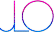 Jennifer Lopez "Love?" logo.